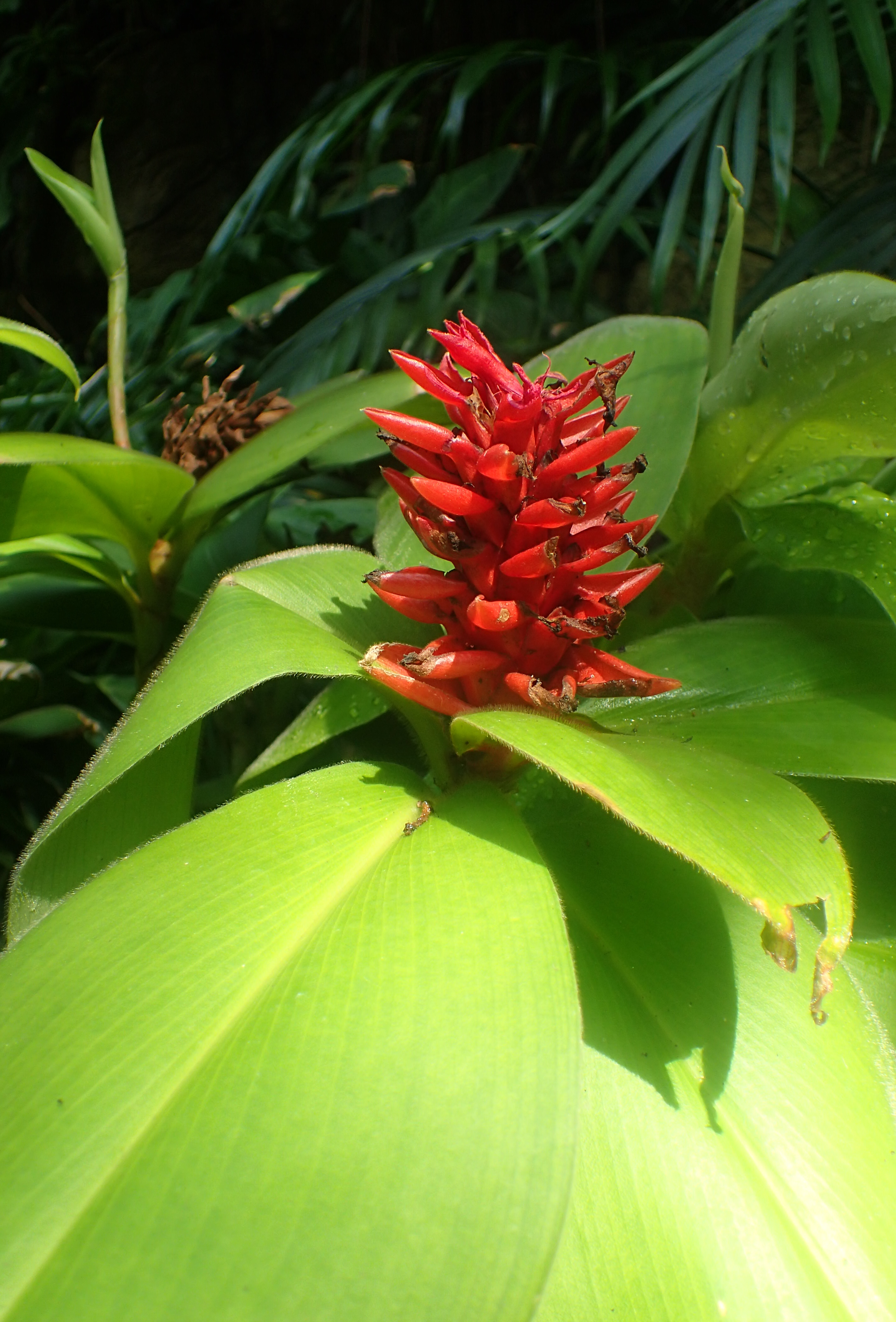 Costus osae in the Missouri Botanical Garden, St. Louis